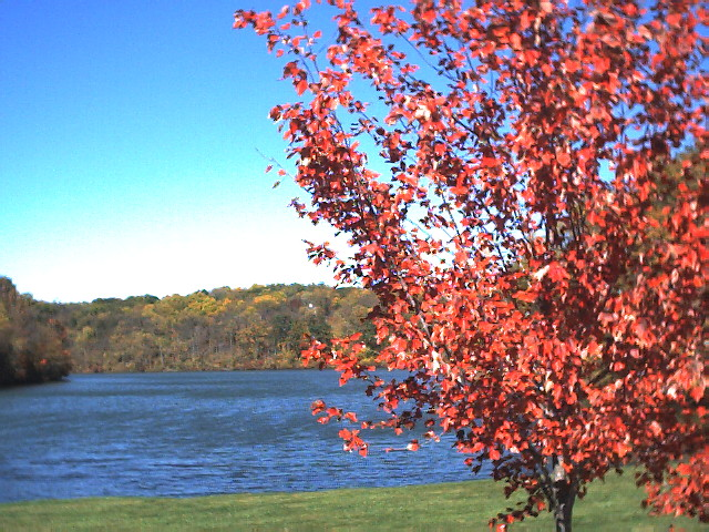 View of Lake Galena from the Galena Territory off of Eagle Ridge Drive. East of Galena, Illinois.